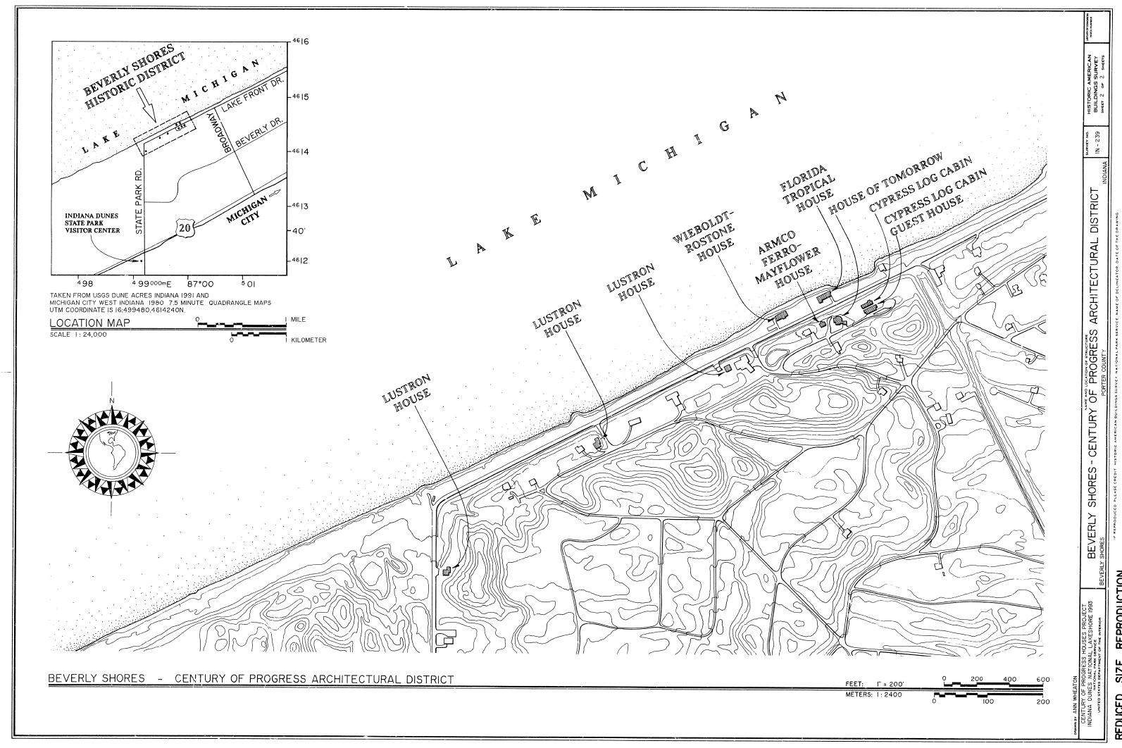 Historic American Building Survey